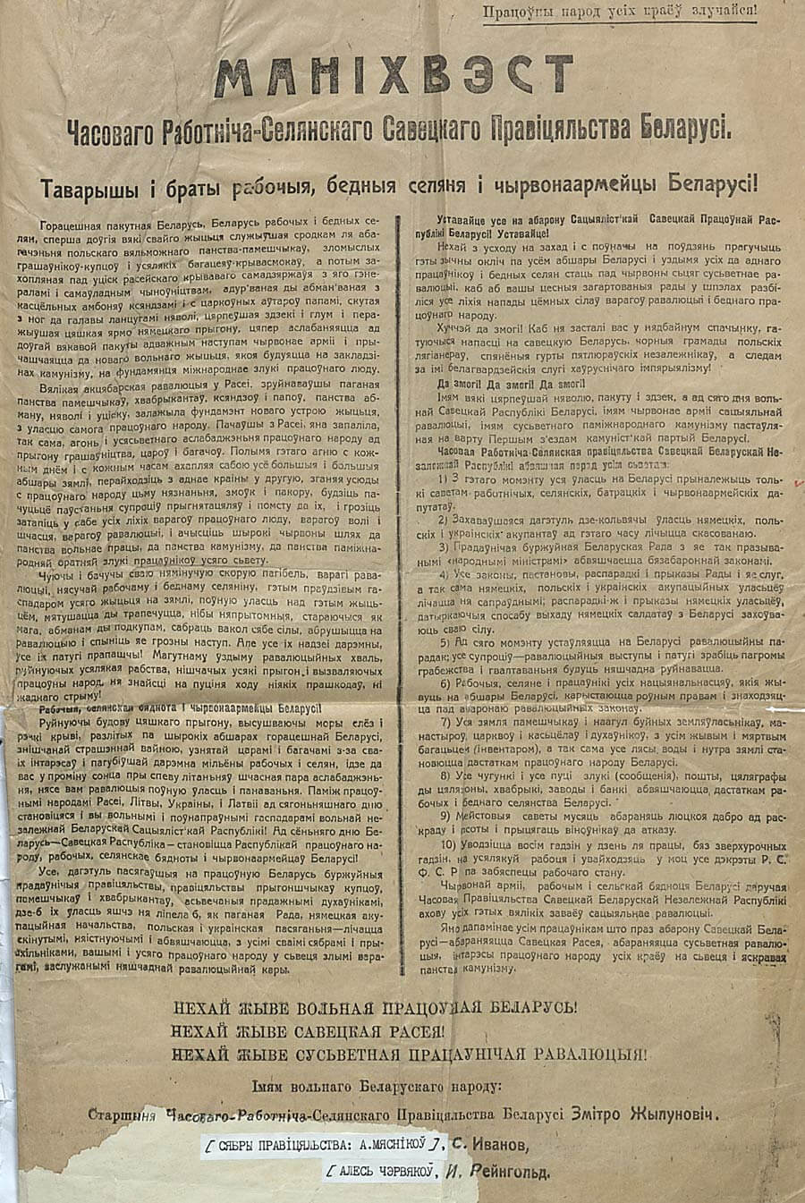 Declaration of independence of Belarusian Soviet Socialistic Republic